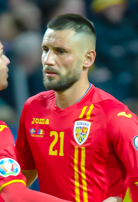 UEFA EURO qualifiers Sweden vs Romaina 20190323